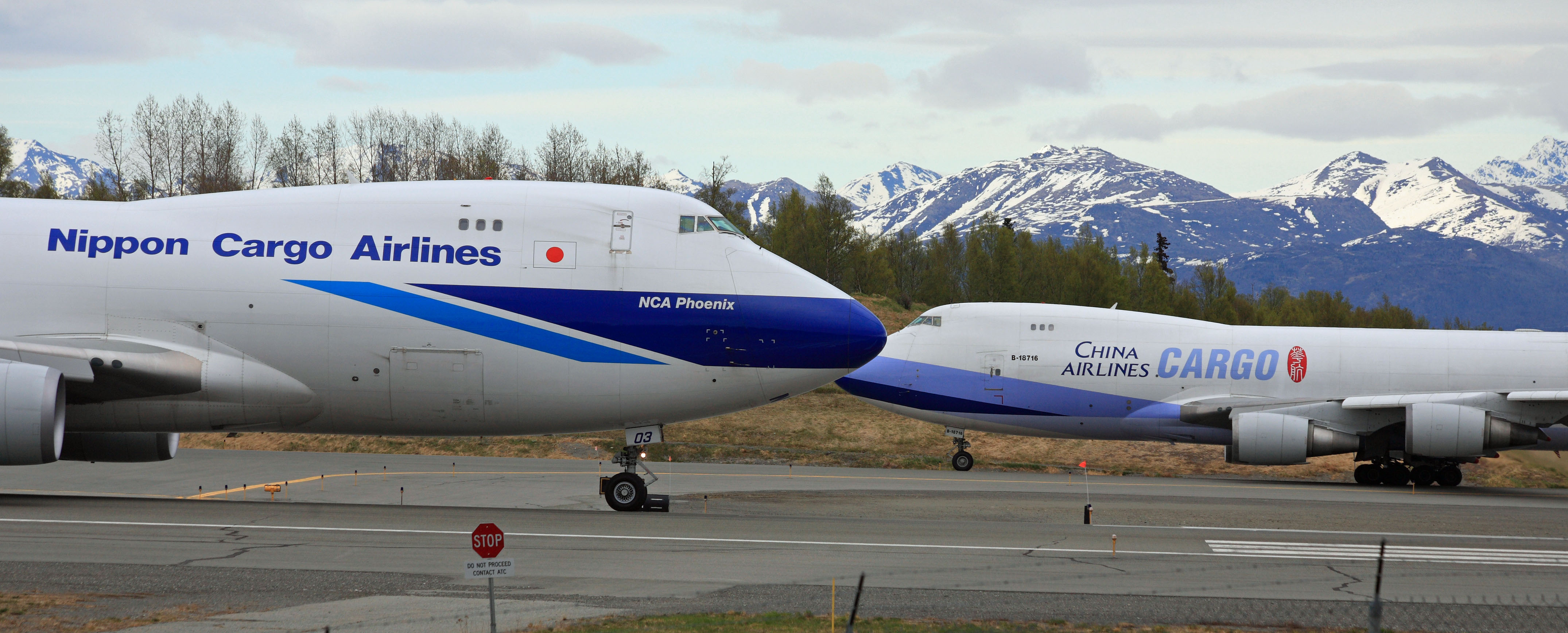 I had a free afternoon in May 2011 so I went out to Anchorage airport to relax and catch up on some travel planning and reading. I also had a chance to check the coming and going of a bunch of planes. What surprised me was the amount of freighter traffic that stops in Anchorage on the way to/from Asia. I remember as a kid it was a real rare treat to see a 747, here in Anchorage they seem to dominate the traffic - how times change!